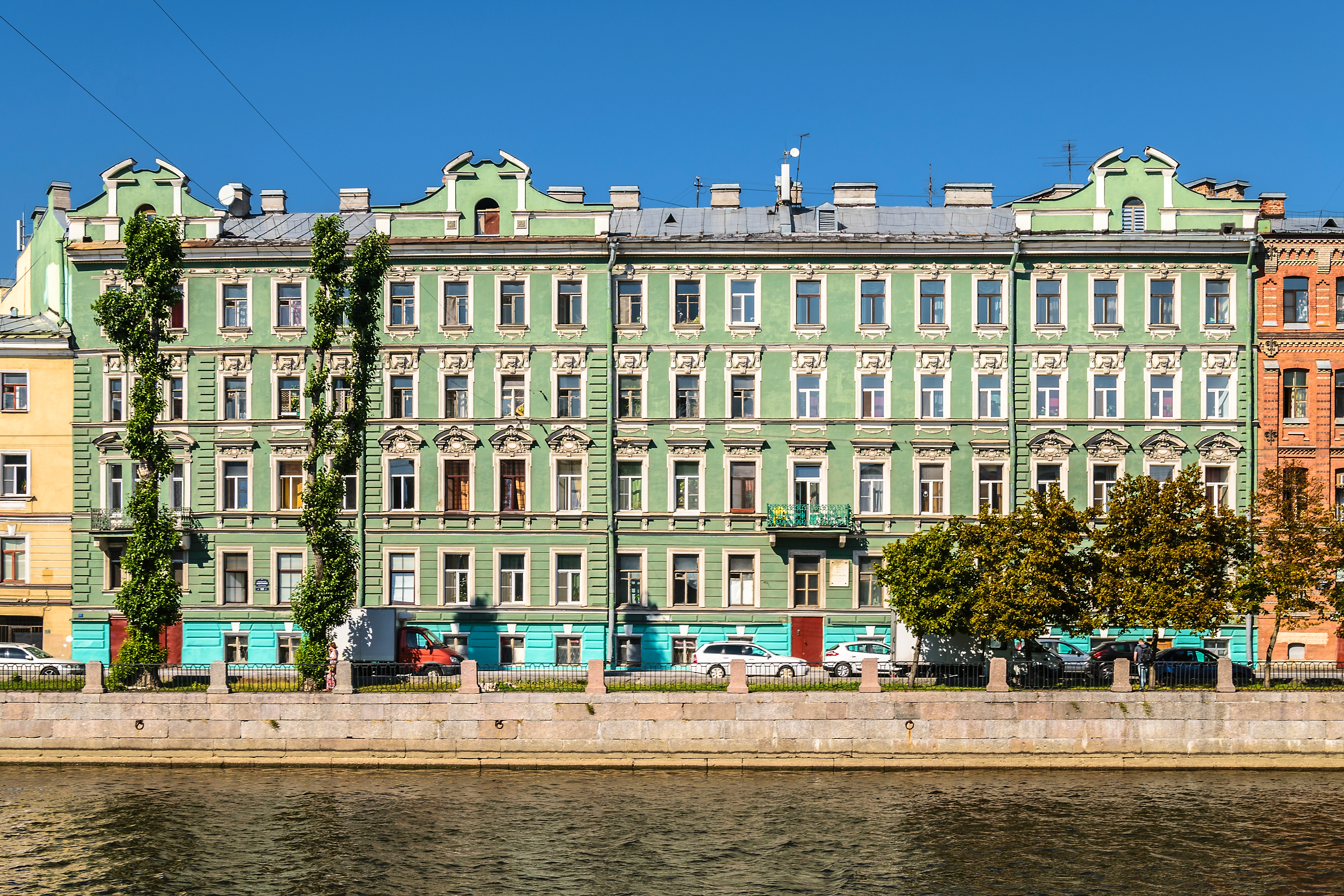 Fontanka Embankment in Saint Petersburg. Klokachiov's Apartment House